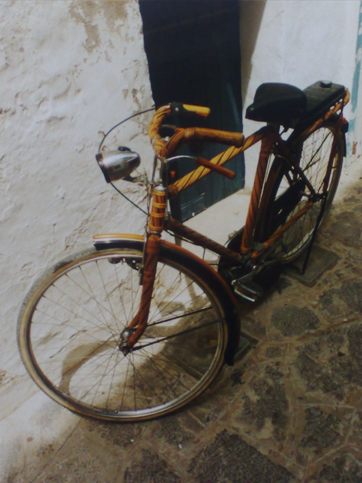 Spotted in a back street of Dalt Vila, the old walled part of Ibiza Town. I had to photo it as I walked by. Love it. July 97